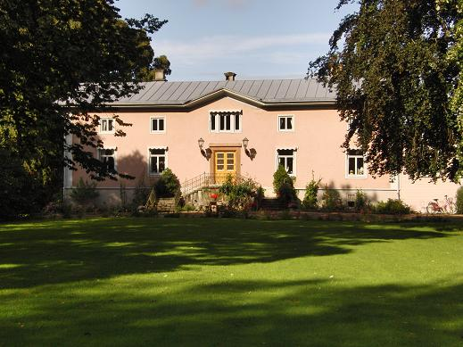 The Mansion of Hjelmsäters Egendom, Götene Municipality, Västergötland, Sweden.